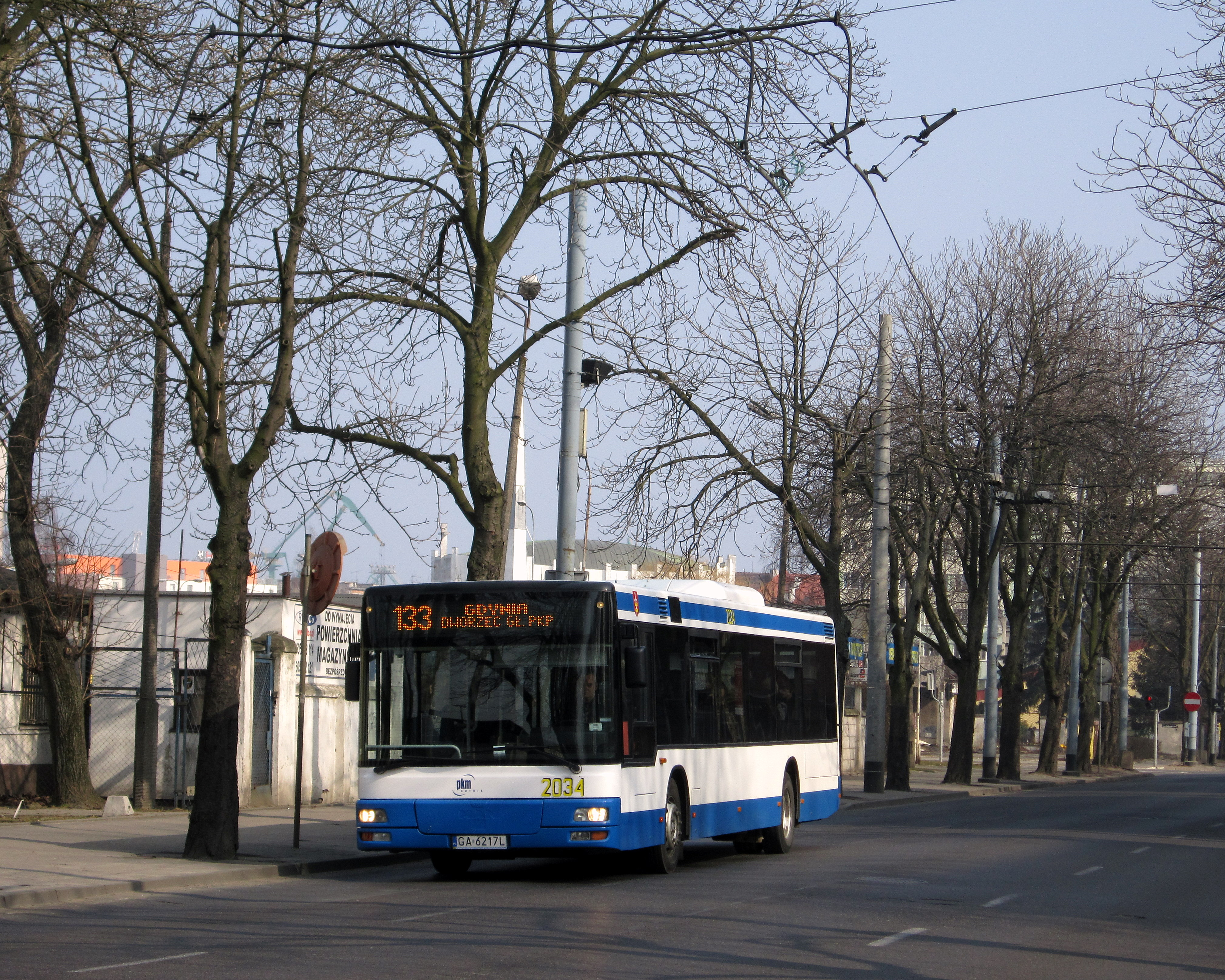 MAN NL 263 bus (#2034, reg. GA 6217L) in Grynia, Poland. Built 1999, PKM Gdynia operator.